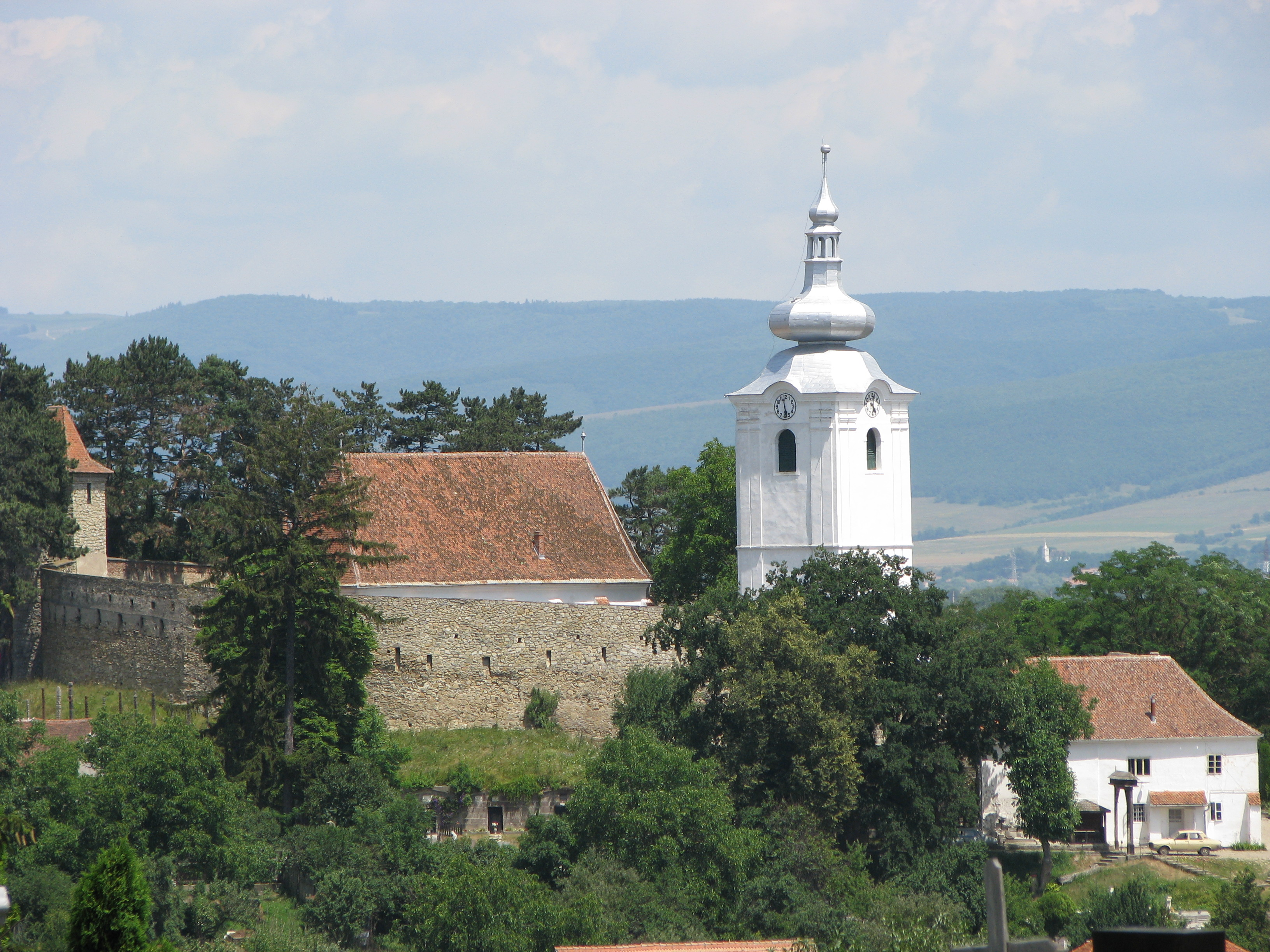 Fortified church in Sfântu Gheorghe, Transylvania, Romania.